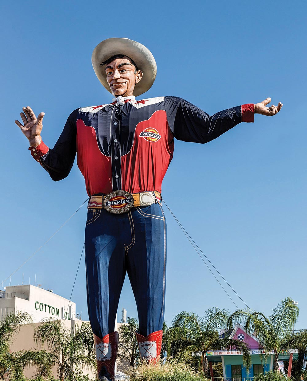 Big Tex at Fair Park in Dallas. Two weeks after Carol M. Highsmith photographed Big Tex, the mascot of the Texas State Fair in Dallas, the 52-foot-tall (16 m) statue burned to the ground because of an electrical fire.